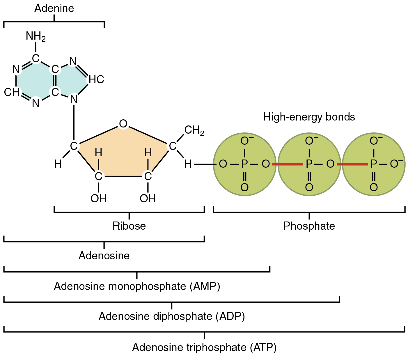 Illustration from Anatomy & Physiology, Connexions Web site. Jun 19, 2013.